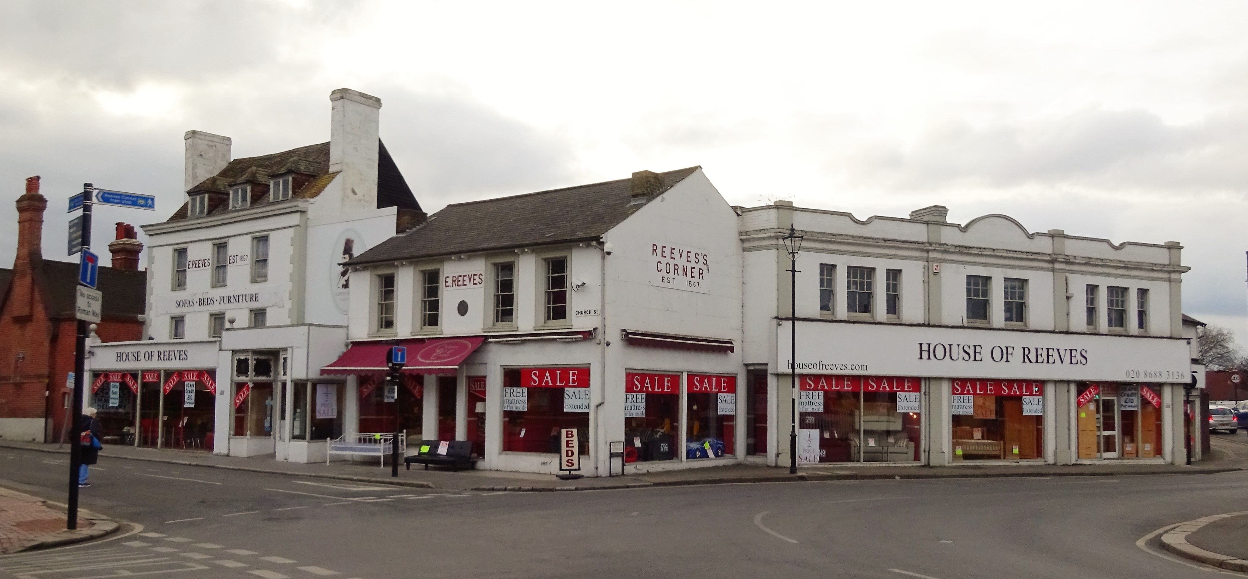 House of Reeves furniture shop at junction of Church Street and Reeves Corner, Croydon